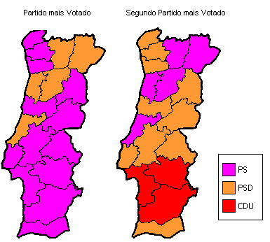 Electoral results in the Portuguese parliamentary election of 2009.